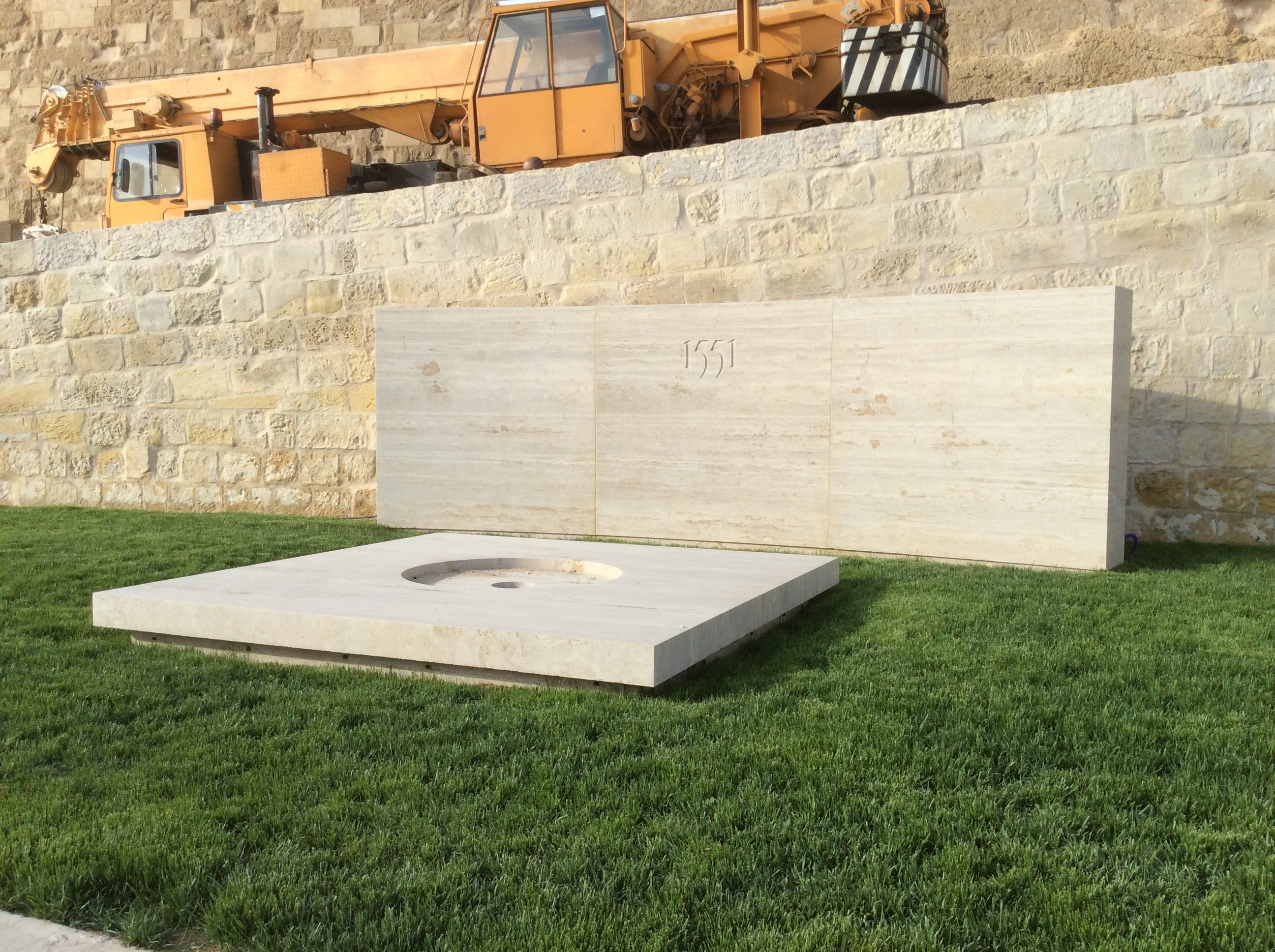 Citadel This media is about Maltese cultural property with inventory number 00003.